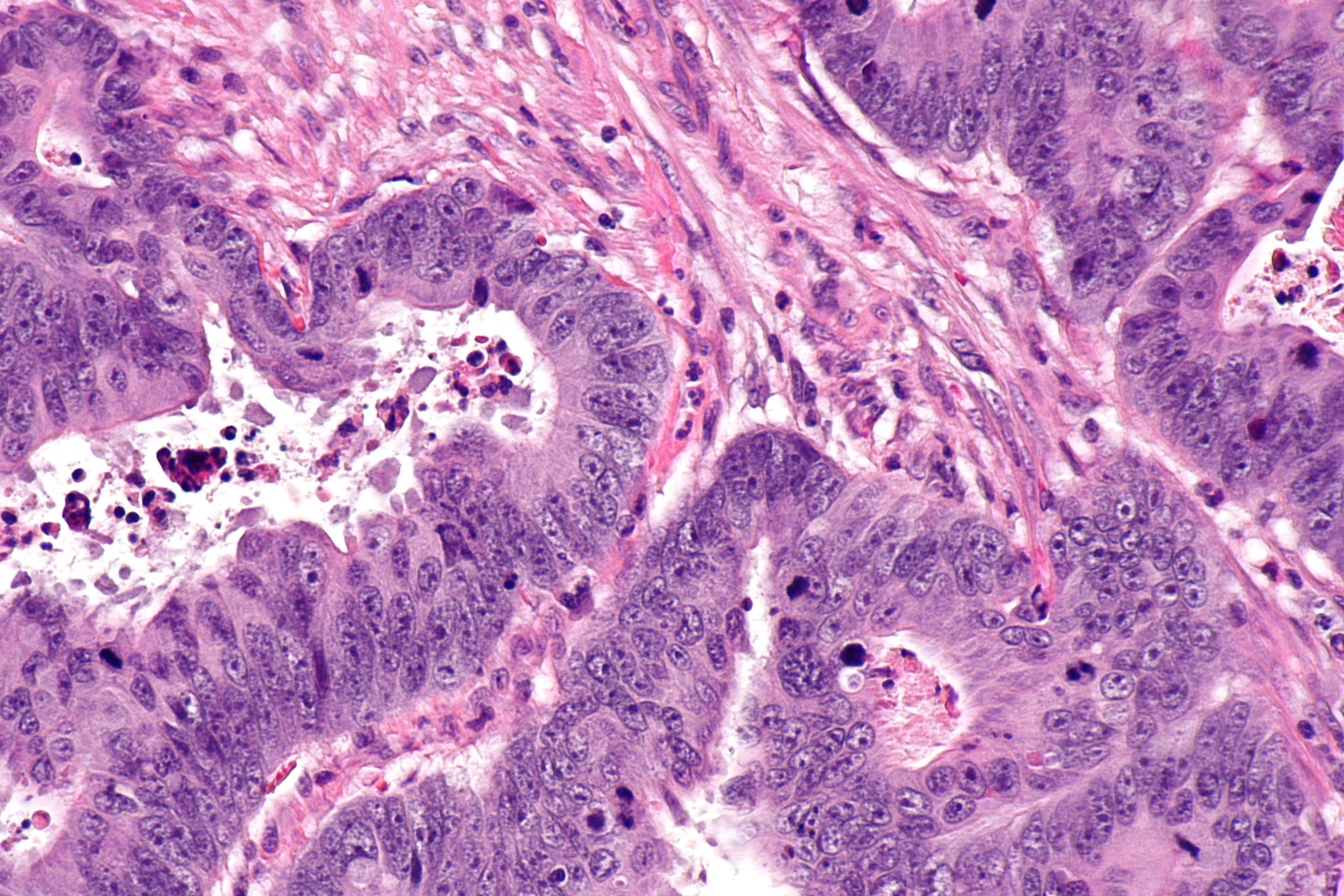 Micrograph of a colorectal adenocarcinoma. H&E stain. Related images CRC - low mag. CRC - intermed. mag. CRC - high mag. CRC - low mag. CRC - intermed. mag. CRC - high mag.